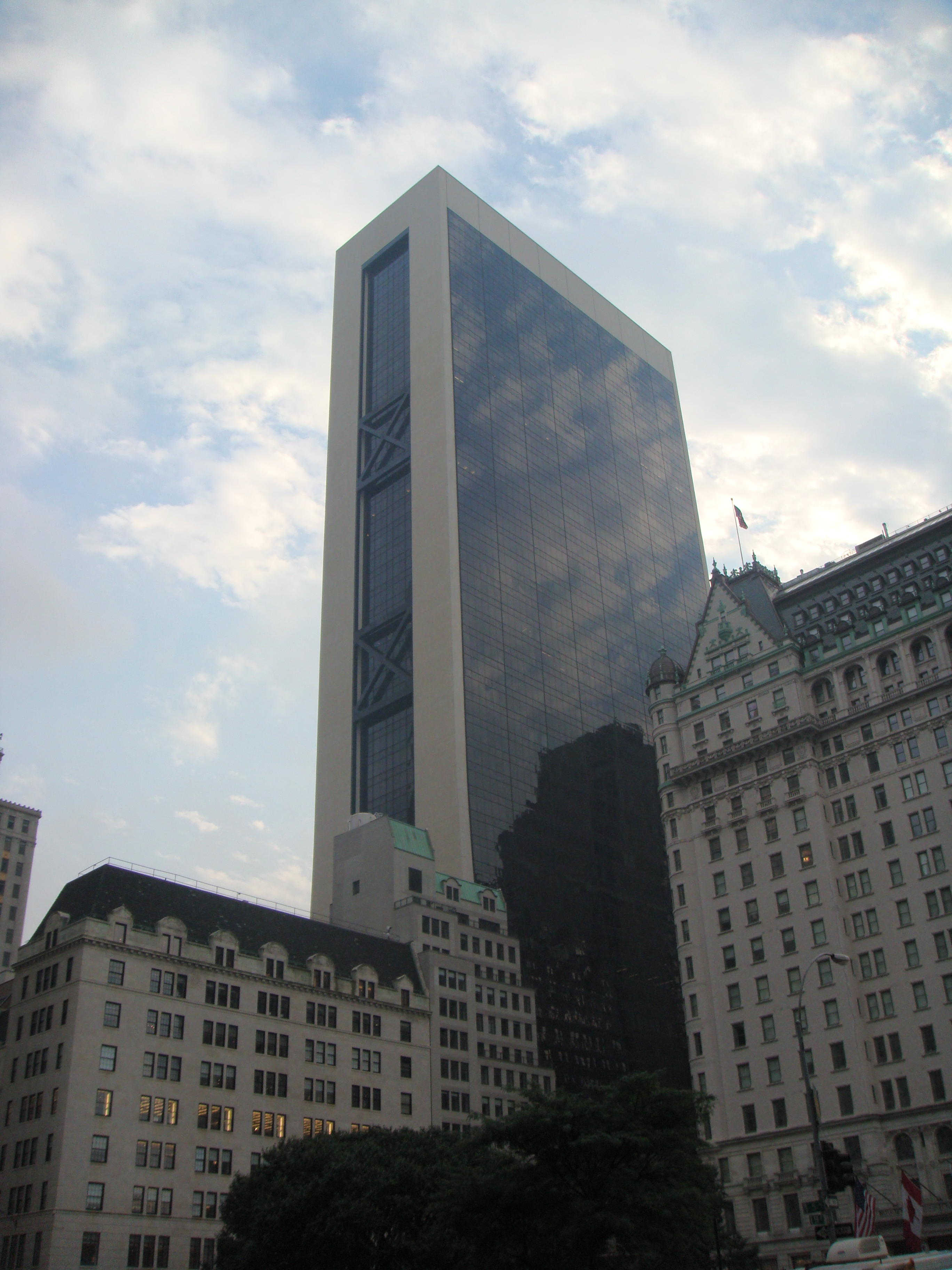 Solow Building corporation